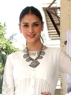 Aditi Rao Hydari at the Trailer launch of Wazir